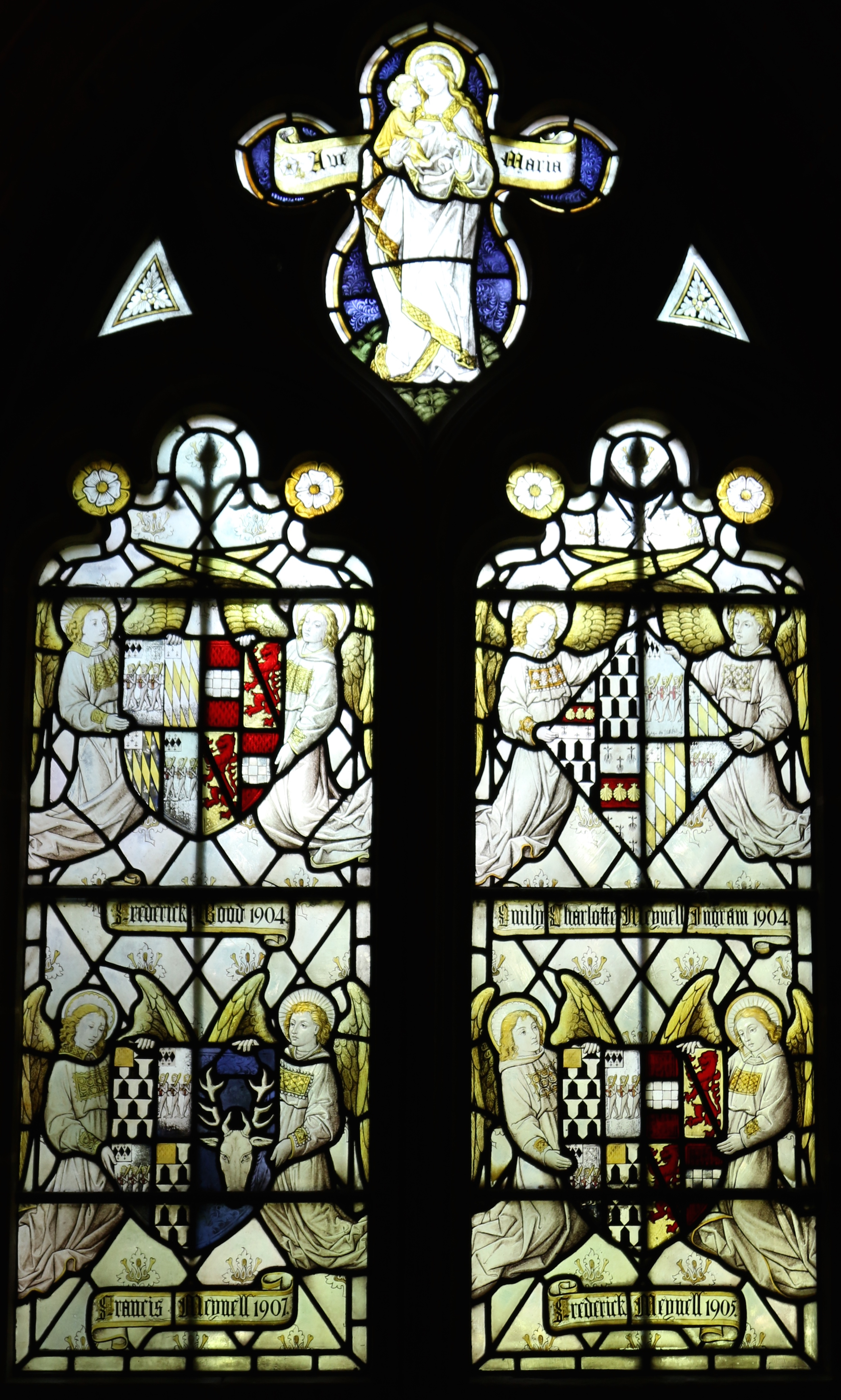 Memorial to Frederick Good 1904, Francis Meynell 1907, Emily Charlotte Meynell Ingram 1904, Frederick Meynell 1905. Bottom left: Colonel Francis Hugo Lindley Meynell was born on 14 April 1880.2 He was the son of Hon. Frederick George Lindley Meynell and Lady Mary Susan Félicie Lindsay.1,2 He married Lady Dorothy Legge, daughter of William Heneage Legge, 6th Earl of Dartmouth and Lady Mary Coke, on 3 October 1907.1 He died on 16 December 1941 at age 61 ( Bottom right: Hon. Frederick George Lindley Meynell was born on 4 June 1846.2 He was the son of Charles Wood, 1st Viscount Halifx of Monk Bretton and Lady Mary Grey.2 He married Lady Mary Susan Félicie Lindsay, daughter of Alexander William Crawford Lindsay, 25th Earl of Crawford and Margaret Lindsay, on 9 May 1878.1 He died on 4 November 1910 at age 64.2 He was given the name of Frederick George Lindley Wood at birth.1 He graduated from Cambridge University, Cambridge, Cambridgeshire, EnglandG, with a Bachelor of Arts (B.A.)2 He was a practising Barrister-at-Law.2 On 8 February 1905 his name was legally changed to Frederick George Lindley Wood by Royal Licence.2 He lived at Hoar Cross, Burton-on-Trent, Staffordshire, EnglandG.2 He held the office of High Sheriff of Staffordshire in 1910(